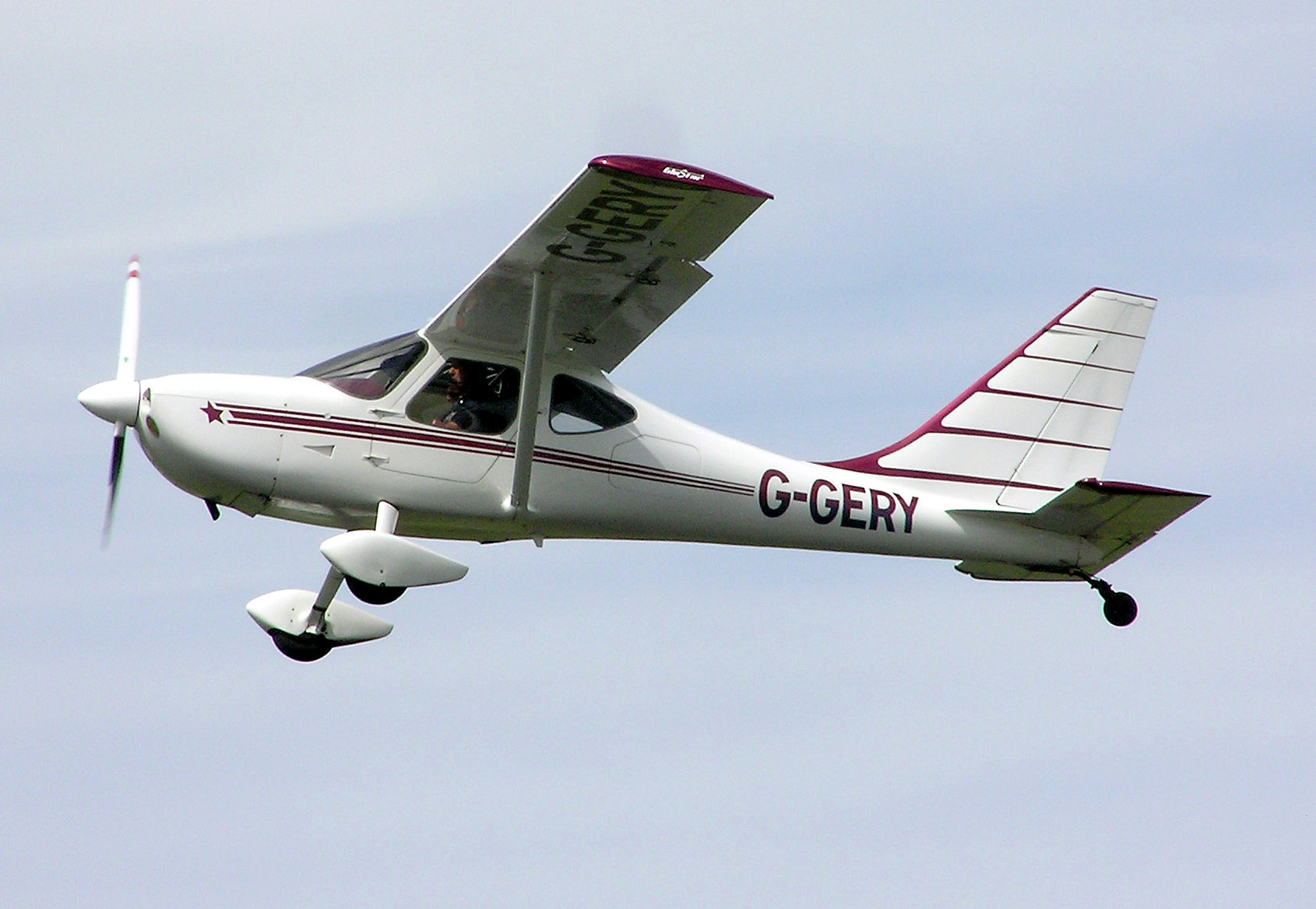 Stoddard-Hamilton Glastar (UK registration G-GERY) at Kemble Airfield, Gloucestershire, England. Photographed by Adrian Pingstone in July 2005 and released to the public domain.